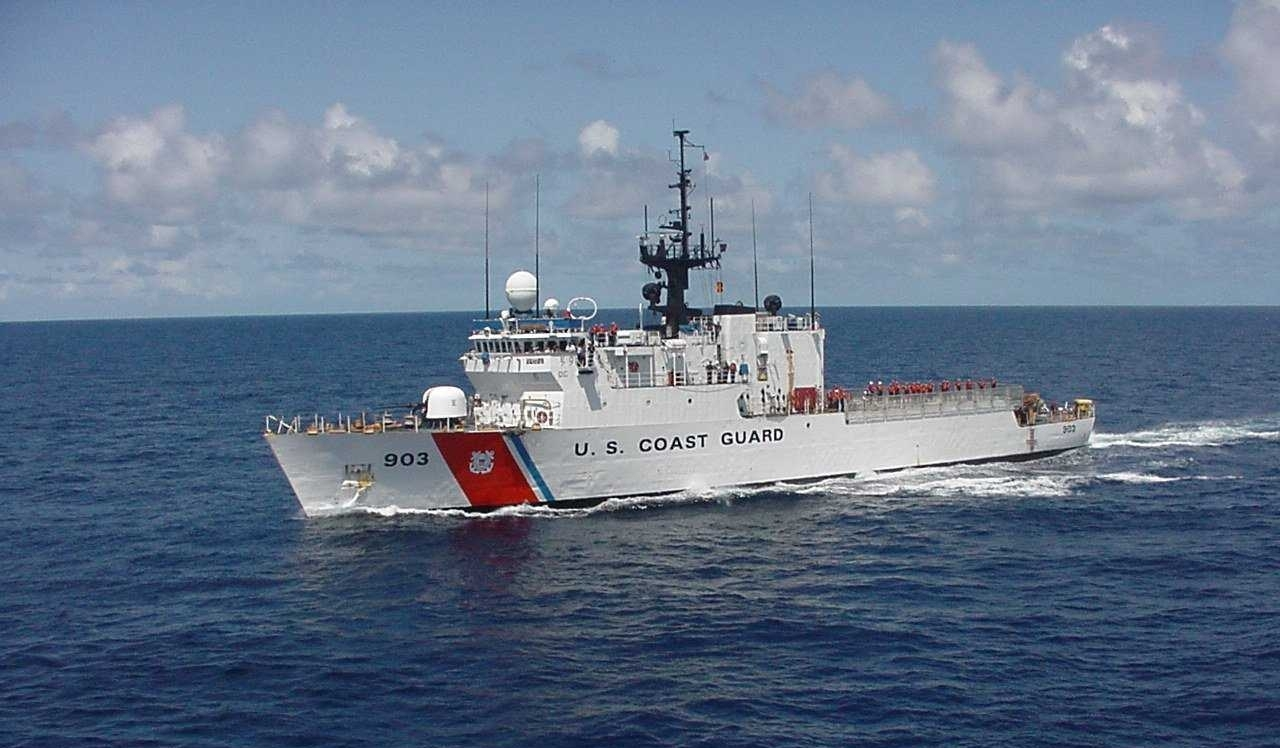 Coast Guard Cutter Harriet Lane patrols the waters during a 60-day patrol in the Caribbean Sea from January to March, 2009. (U.S. Coast Guard Photo)